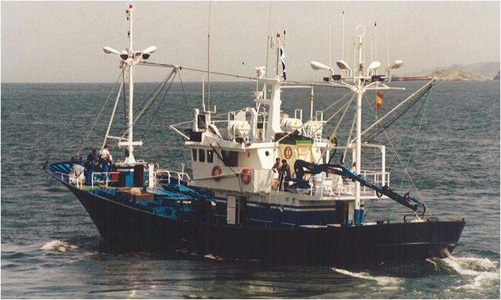 Vista de un pesquero cerquero.